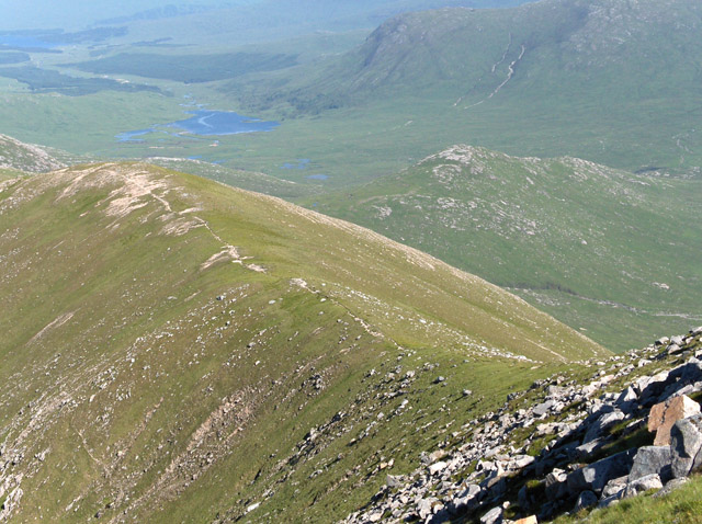 Glas Bheinn Mhor. Looking down the east ridge from the summit, with Loch Dochard and Loch Tulla below.